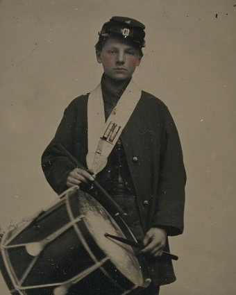 Title: Samuel W. Doble of Company D, 12th Maine Infantry Regiment, with drum] / S. Shattuck, ambrotype, daguerreotype, and photographic artist, 19 Central St., Lowell Abstract/medium: 1 photograph : ninth-plate ambrotype, hand-colored ; 9.1 x 7.8 cm (frame)